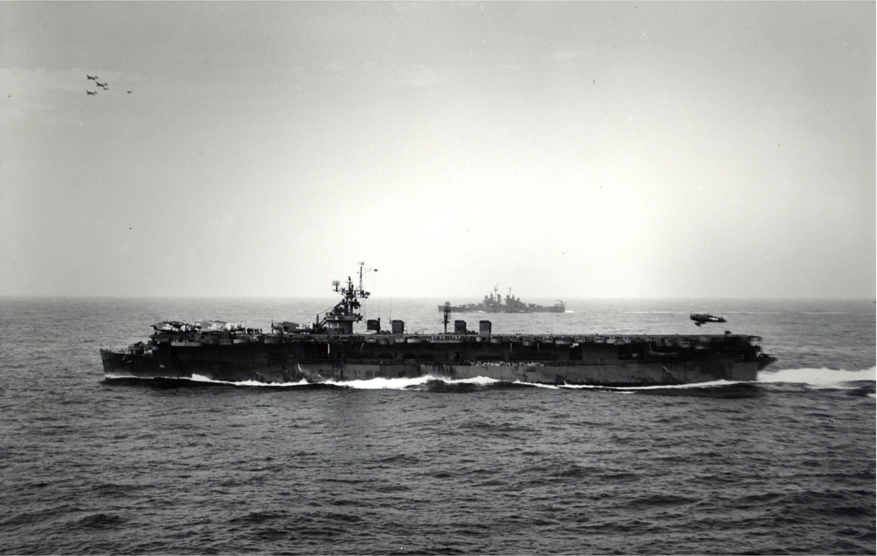 A U.S. Navy Grumman F6F Hellcat fighter of fighting squadron VF-29 approaching the light aircraft carrier USS Cabot (CVL-28) in 1944. A Cleveland class light cruiser is visible in the background. Note the "g-symbol" air group identification on Cabot´s planes, three white horizontal stripes and a white rudder, ordered in October 1944.